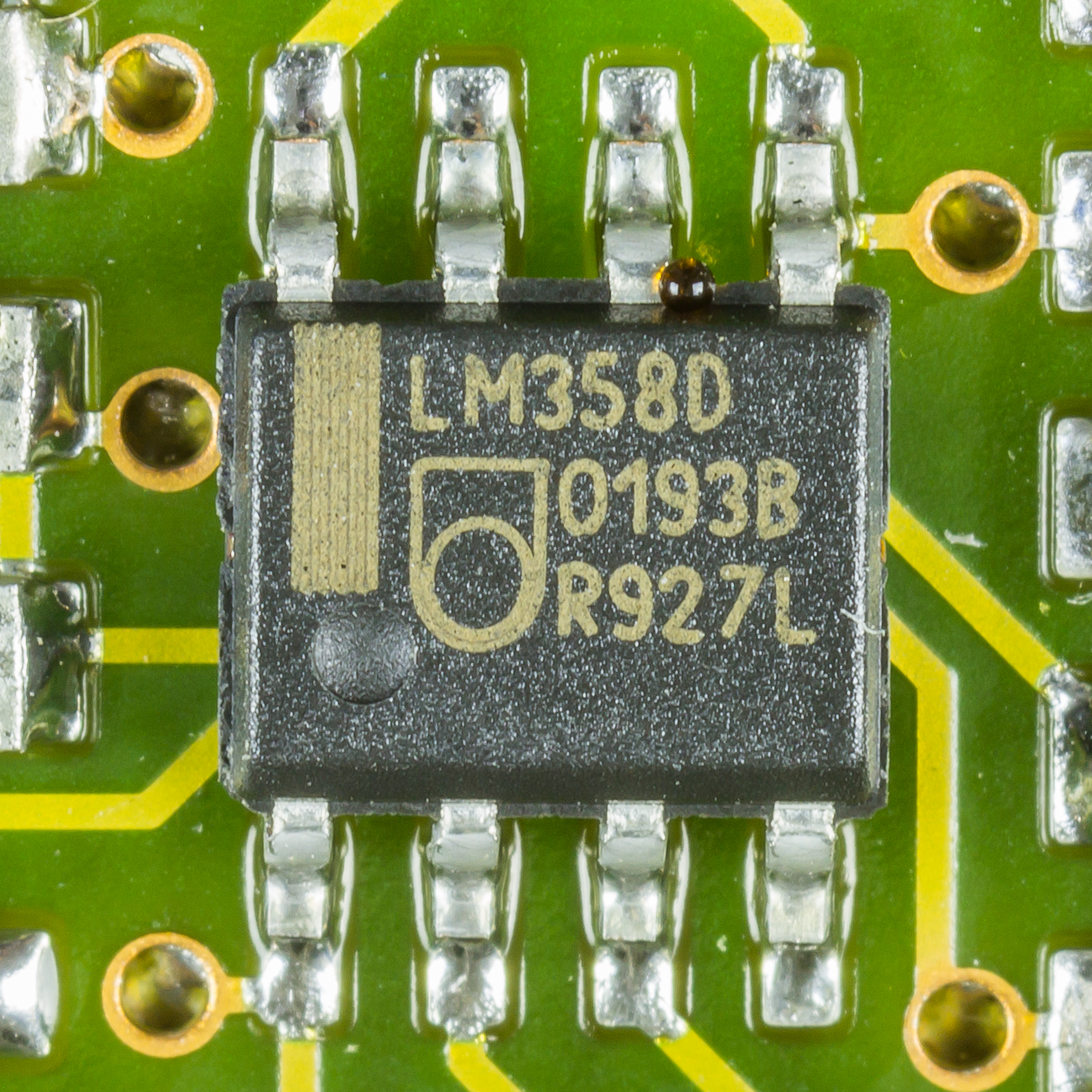 Nedap ESD1 - Keyboard controller PCB - Philips LM358D - Low power dual operational amplifier